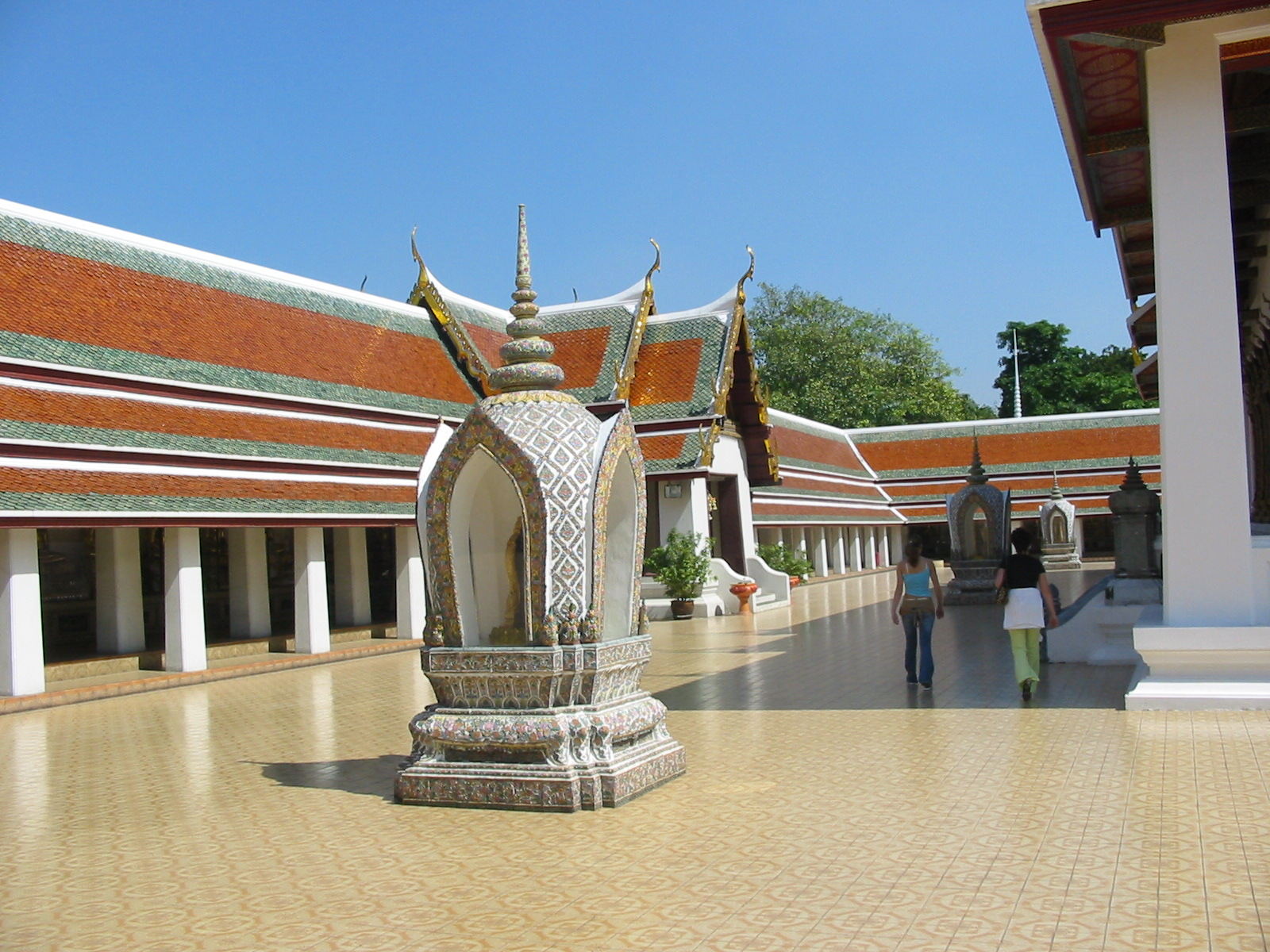 Courtyard of Wat Saket (Temple of the Golden Mount), Bangkok, Thailand